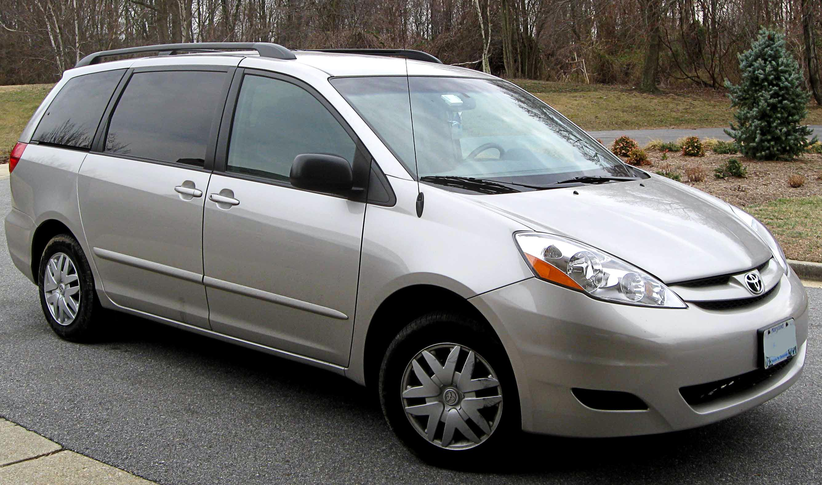 2006-2009 Toyota Sienna photographed in Fort Washington, Maryland, USA.